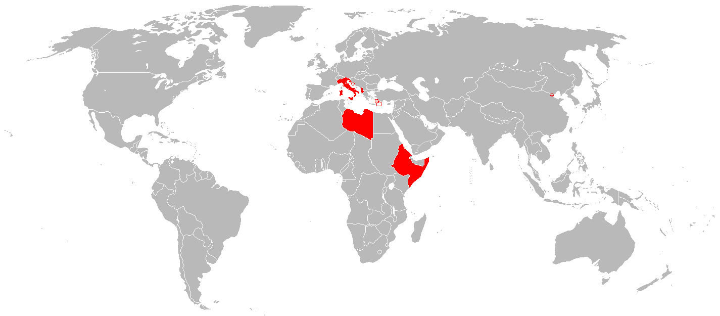 Italian Colonial Empire